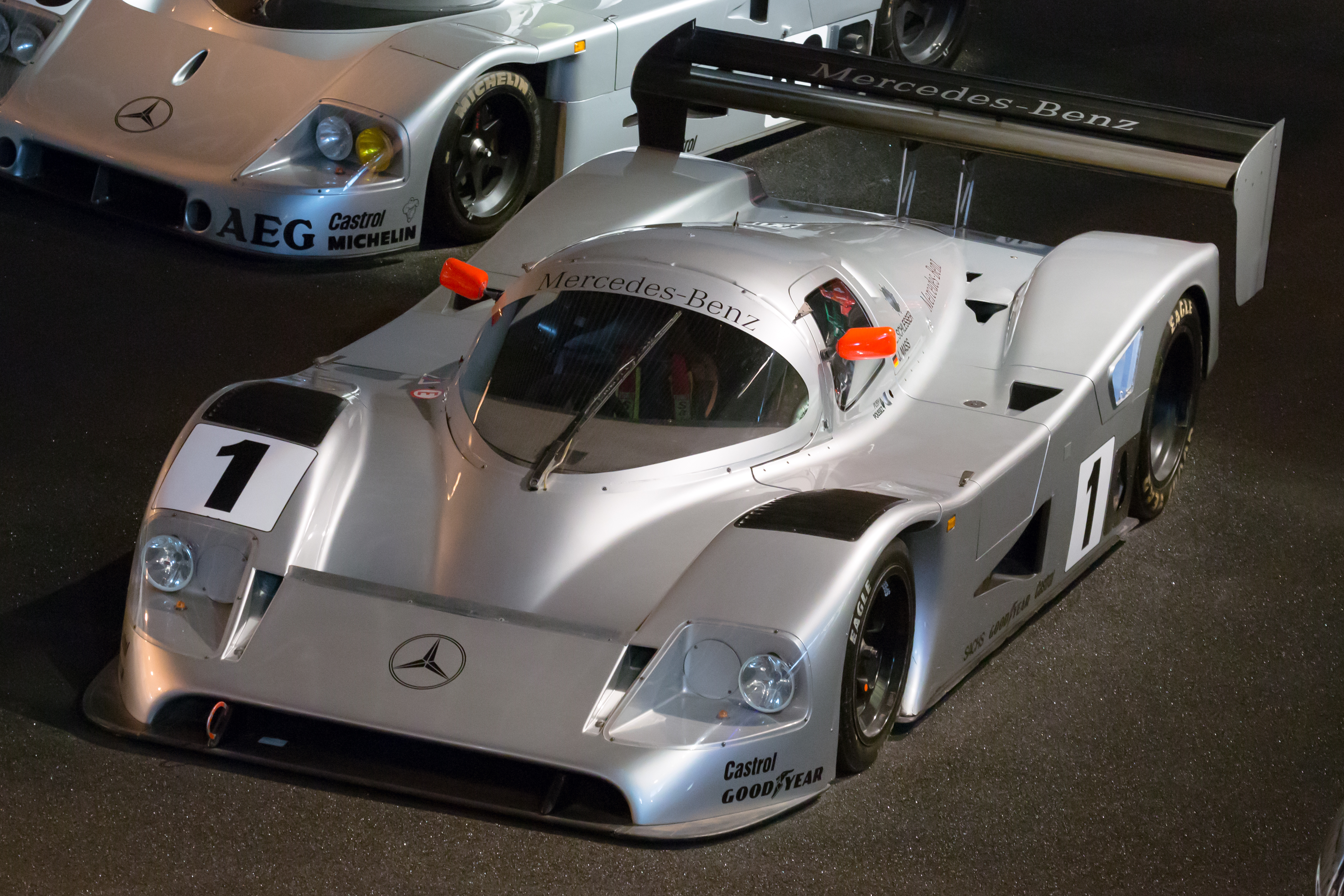 1991 Mercedes-Benz C11